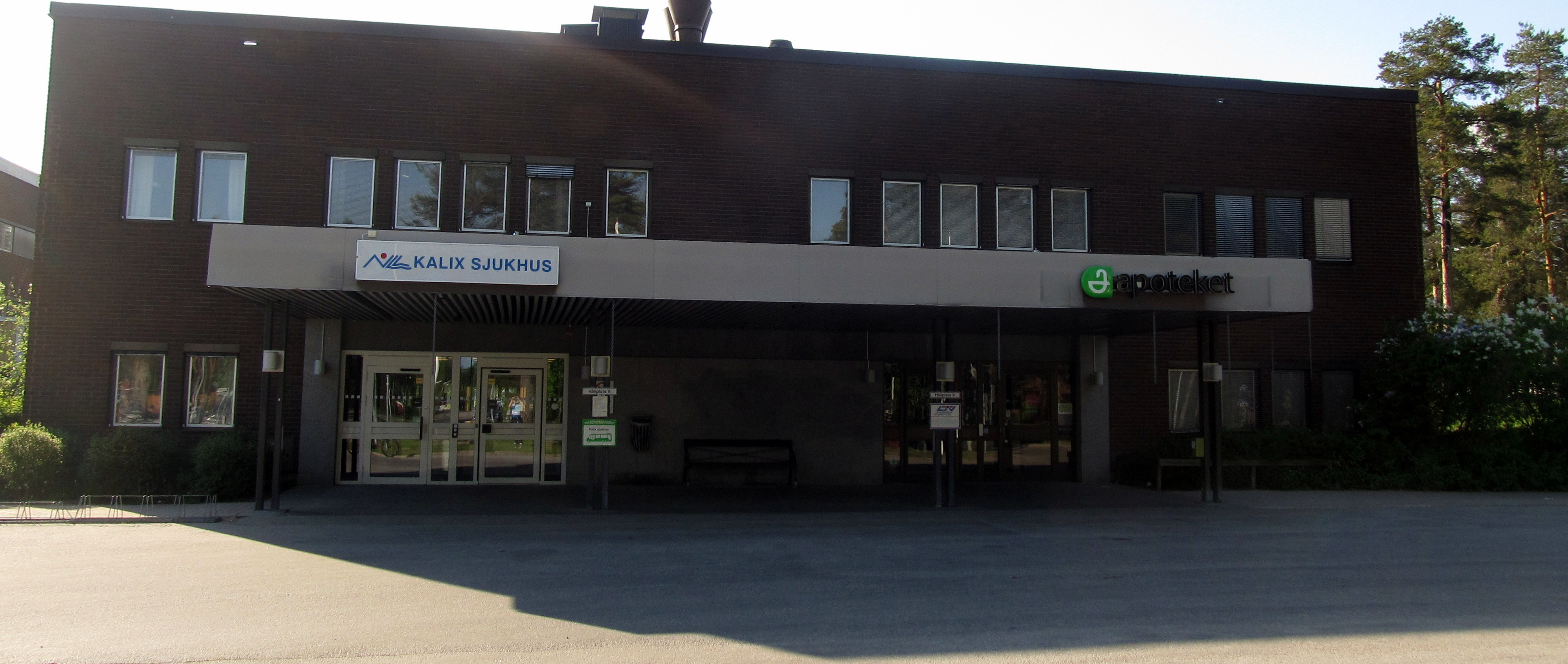 Kalix Hospital